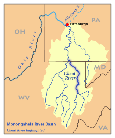 This is a map of the Monongahela River basin, with the Cheat River in West Virginia and Pennsylvania highlighted. Credits I, Pfly, made it, based on USGS data.